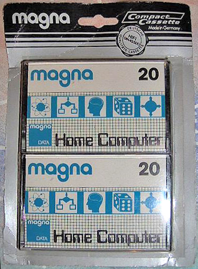 Image of Compact Cassettes designed for data use. From own collection, taken by ProhibitOnions, 2007.